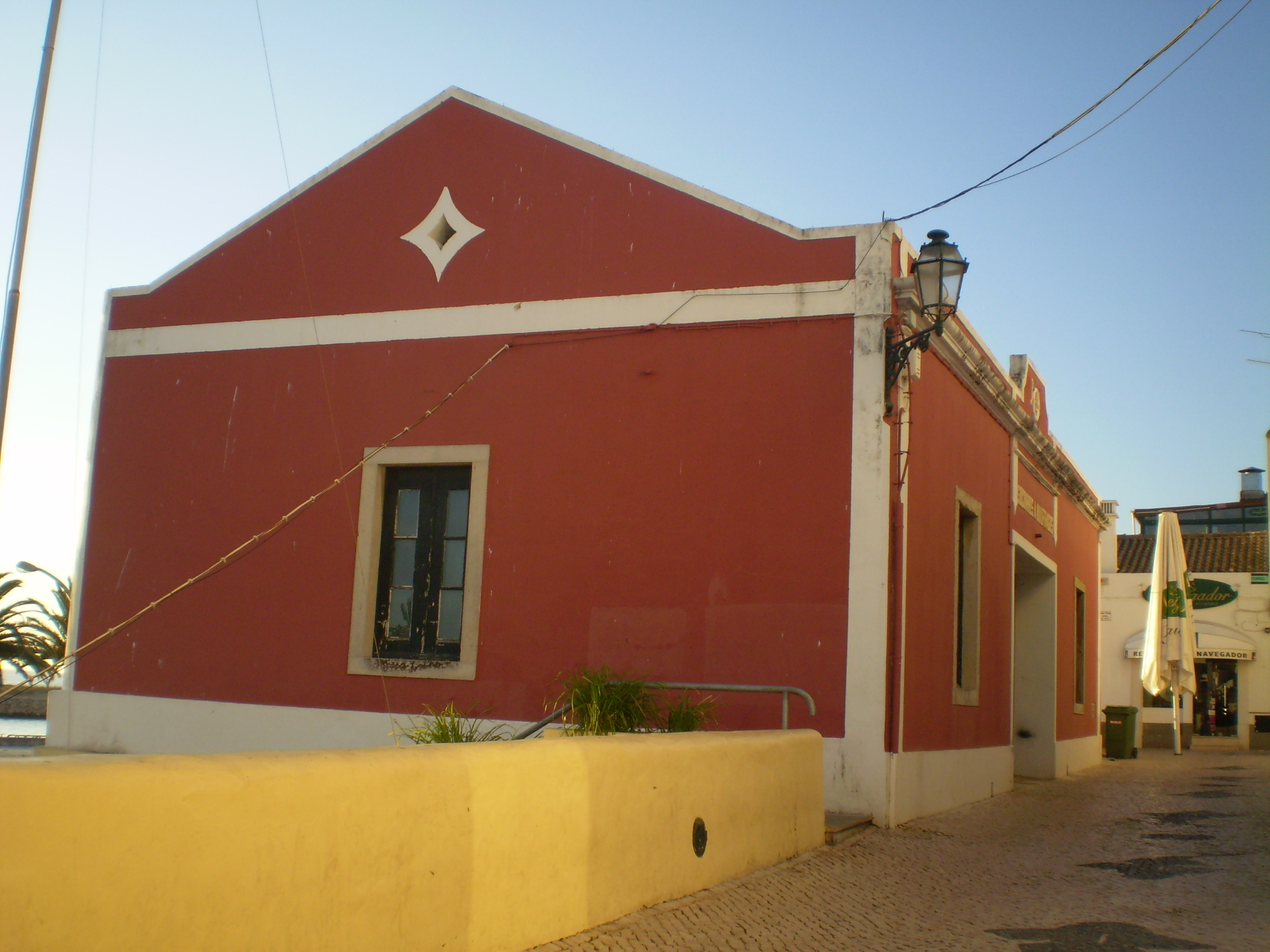 Building of the Instituto de Socorros a Náufragos (portuguese lifeguard association) in Lagos, Portugal.